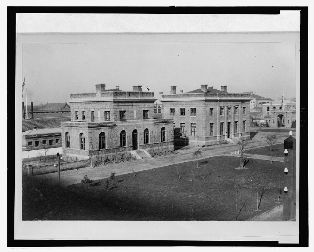 Peking, U.S. Legation, Secretary's home and the Chancery